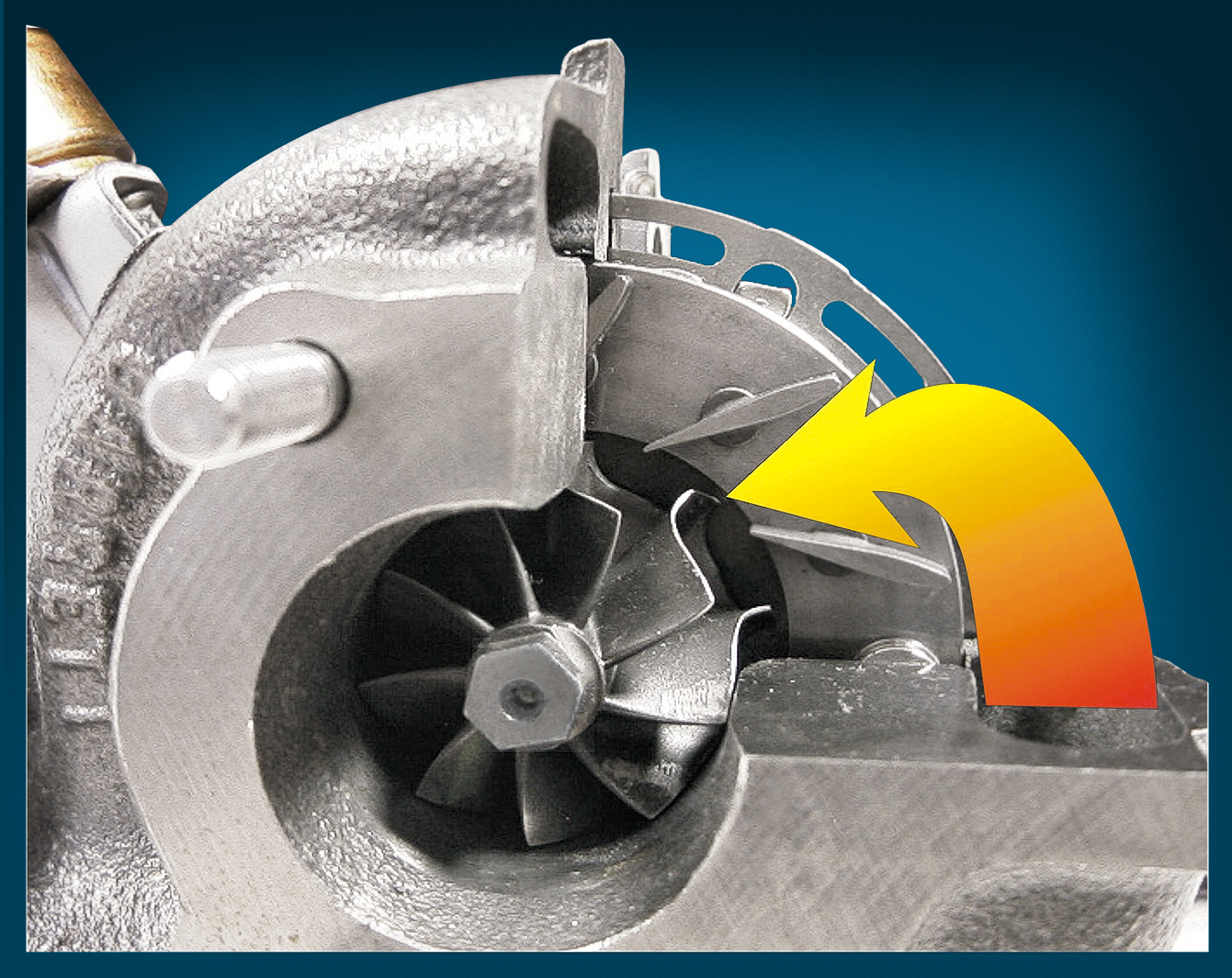 The Honeywell VNT mechanism regulates the exhaust gas flow in direct response to the engine requirements through a row of moveable vanes.